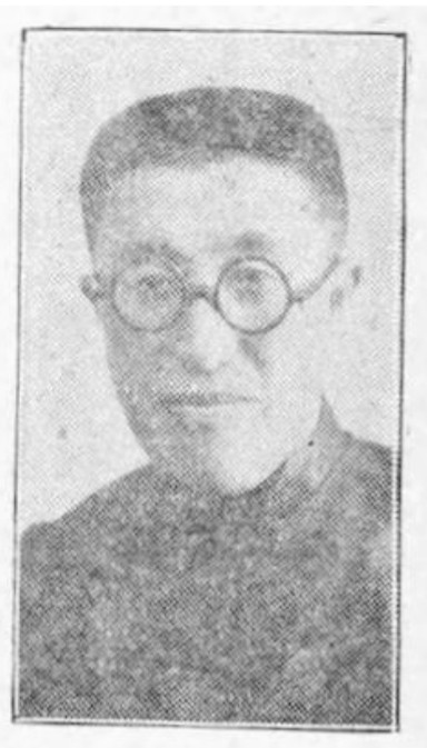 Lou Xueqian (1891 - ?)